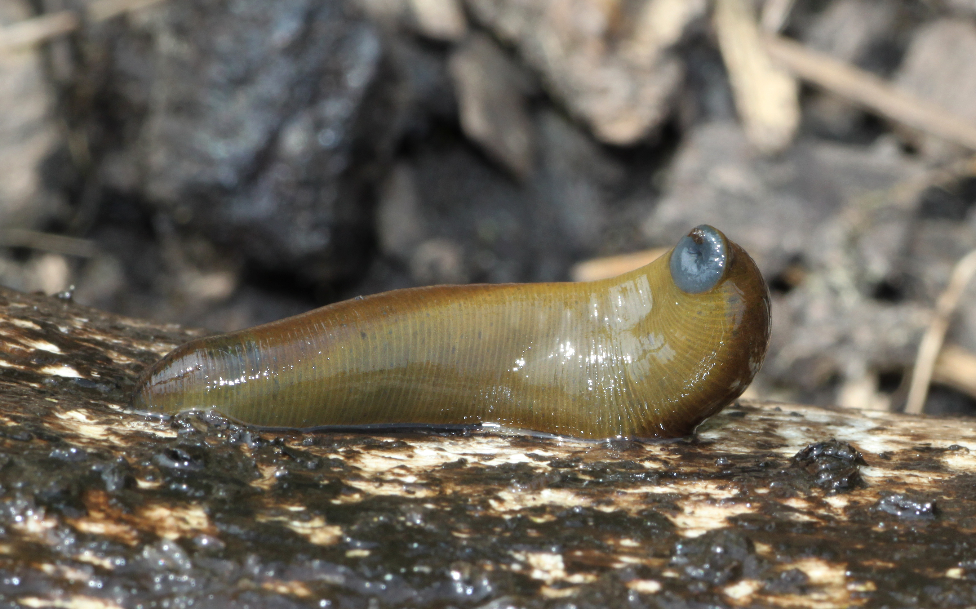 Horse Leech, Haemopis sanguisuga, family: Haemopidae, location: Southern Germany, Torfgrube